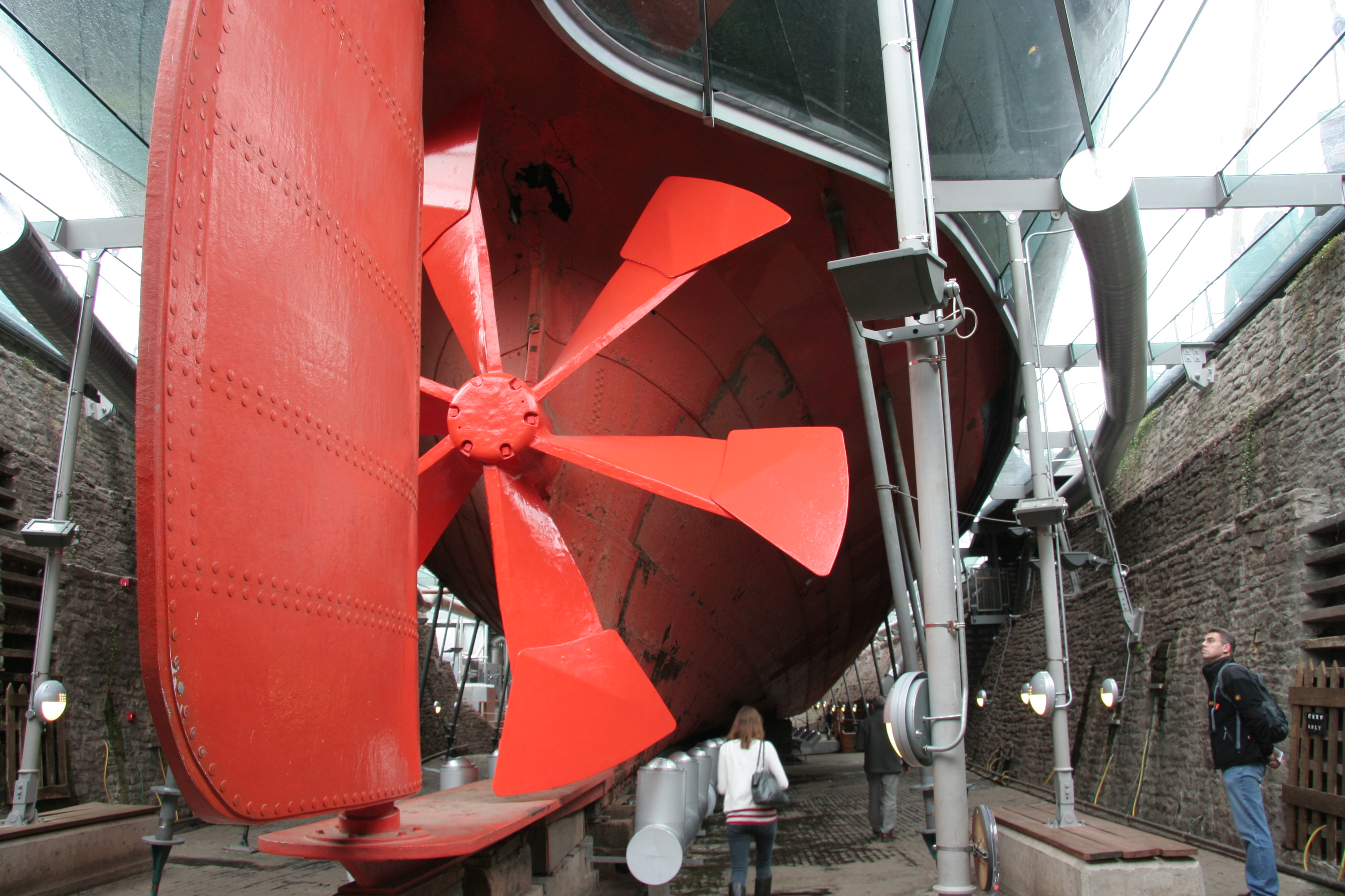 Keel photo of the museum ship SS Great Britain, showing rudder and replica of the ship's original six-bladed propeller.